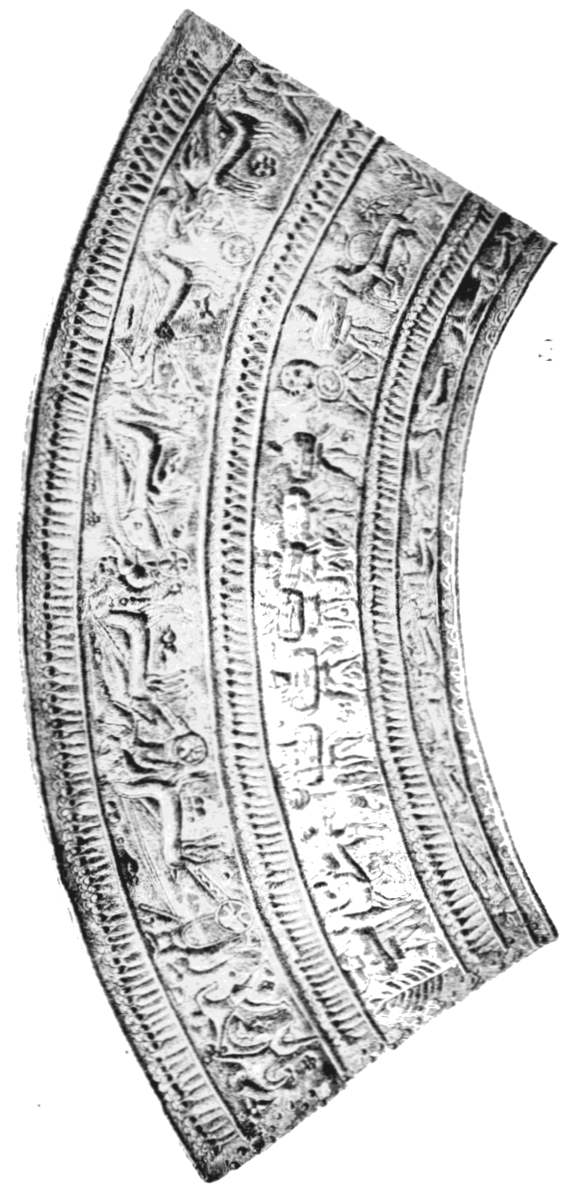 Arnoaldi situla from Bologna